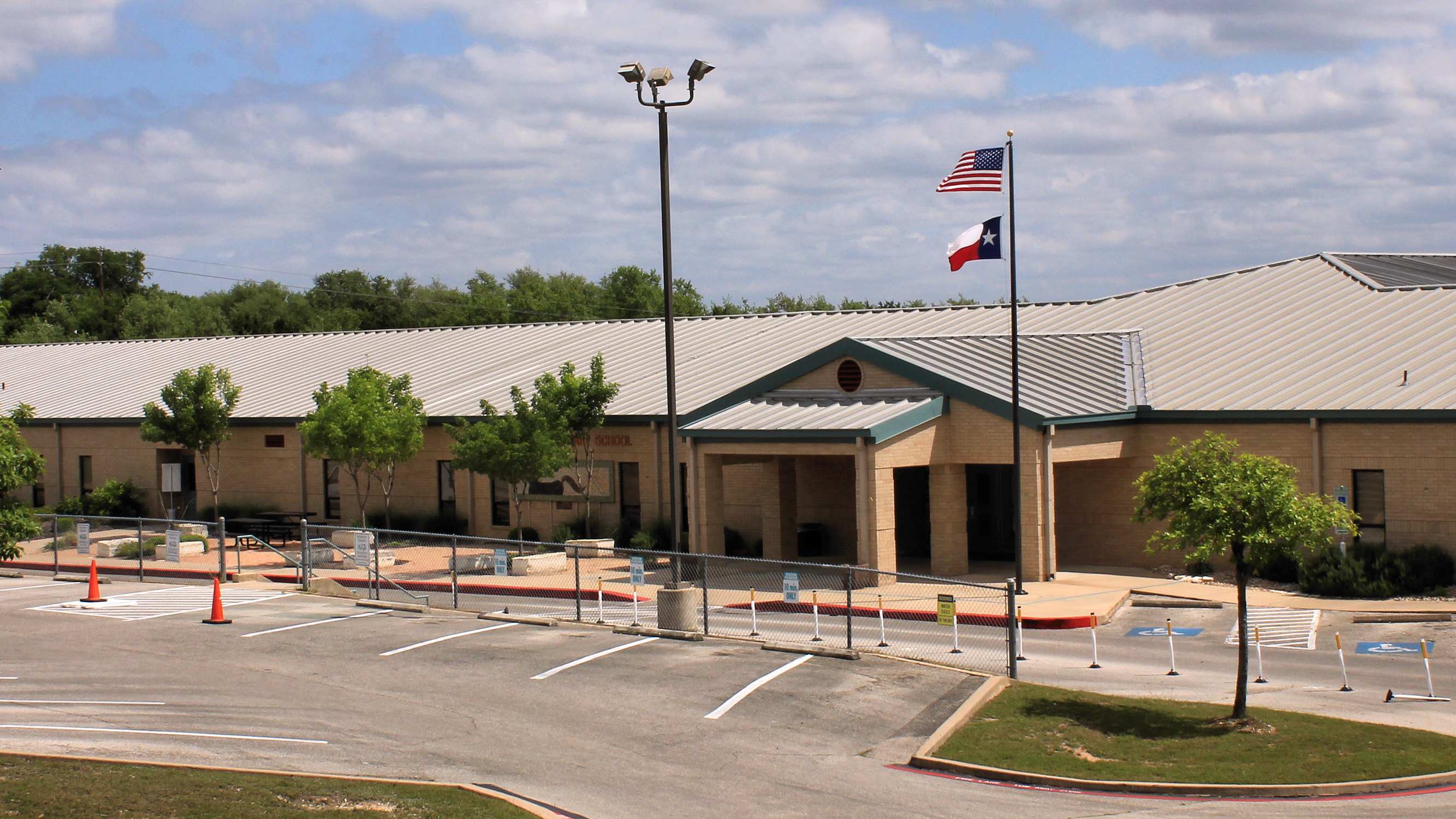 Lakeway Elementary School in Lake Travis Independent School District, Lakeway, Texas, United States.